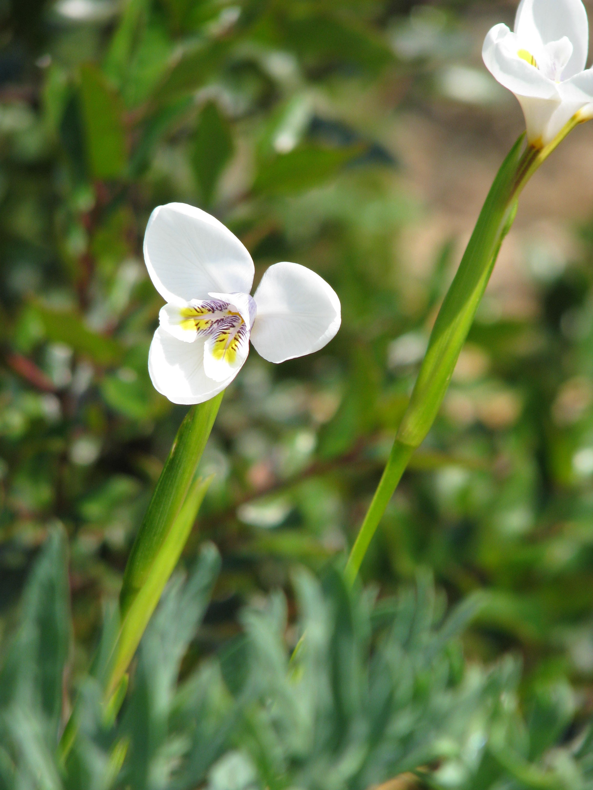 Diplarrena latifolia